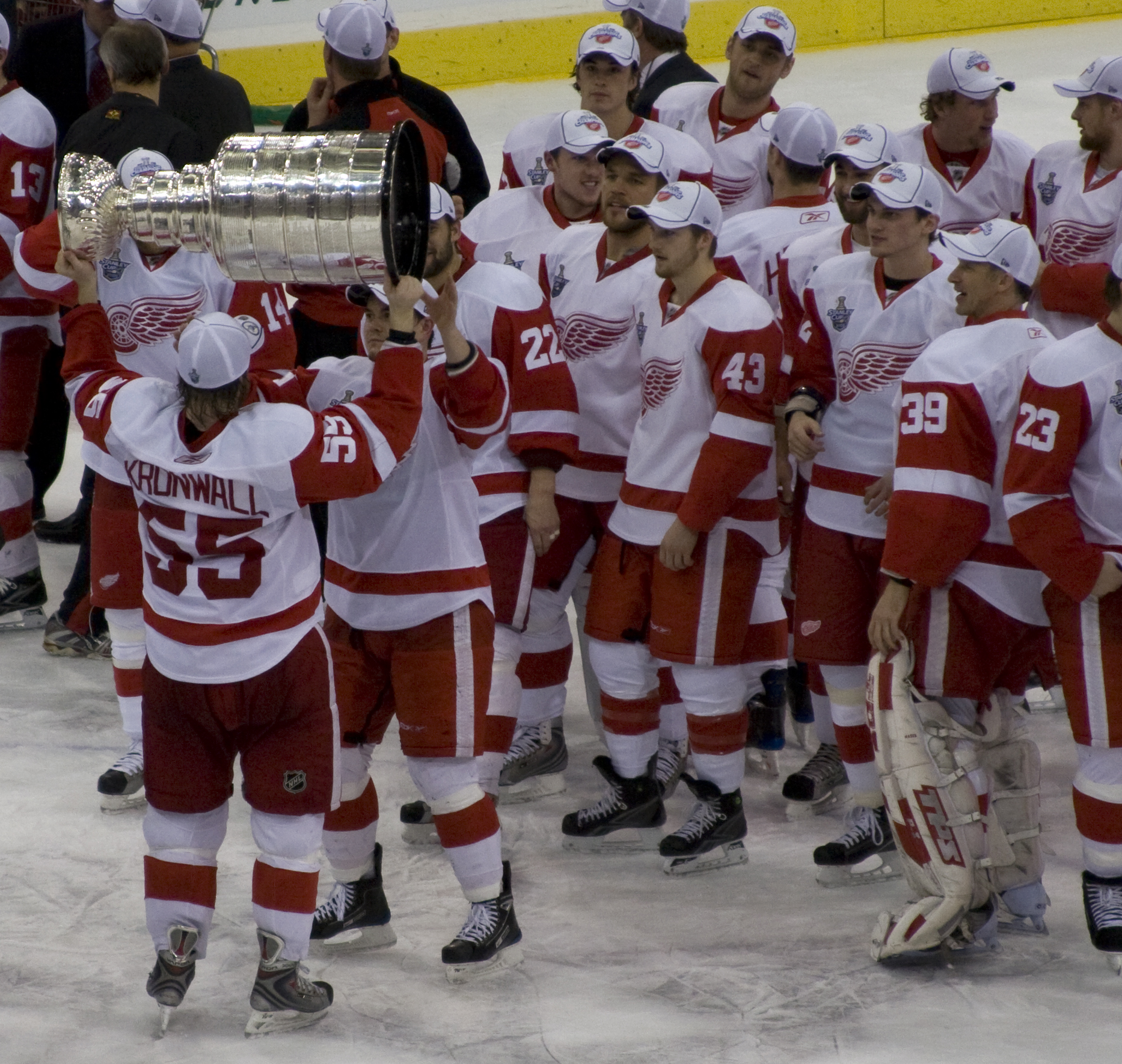 Niklas Kronwall of the Dettroit Red Wings hands over the Stanley Cup, after beating the Pittsburgh Penguins 3-2.